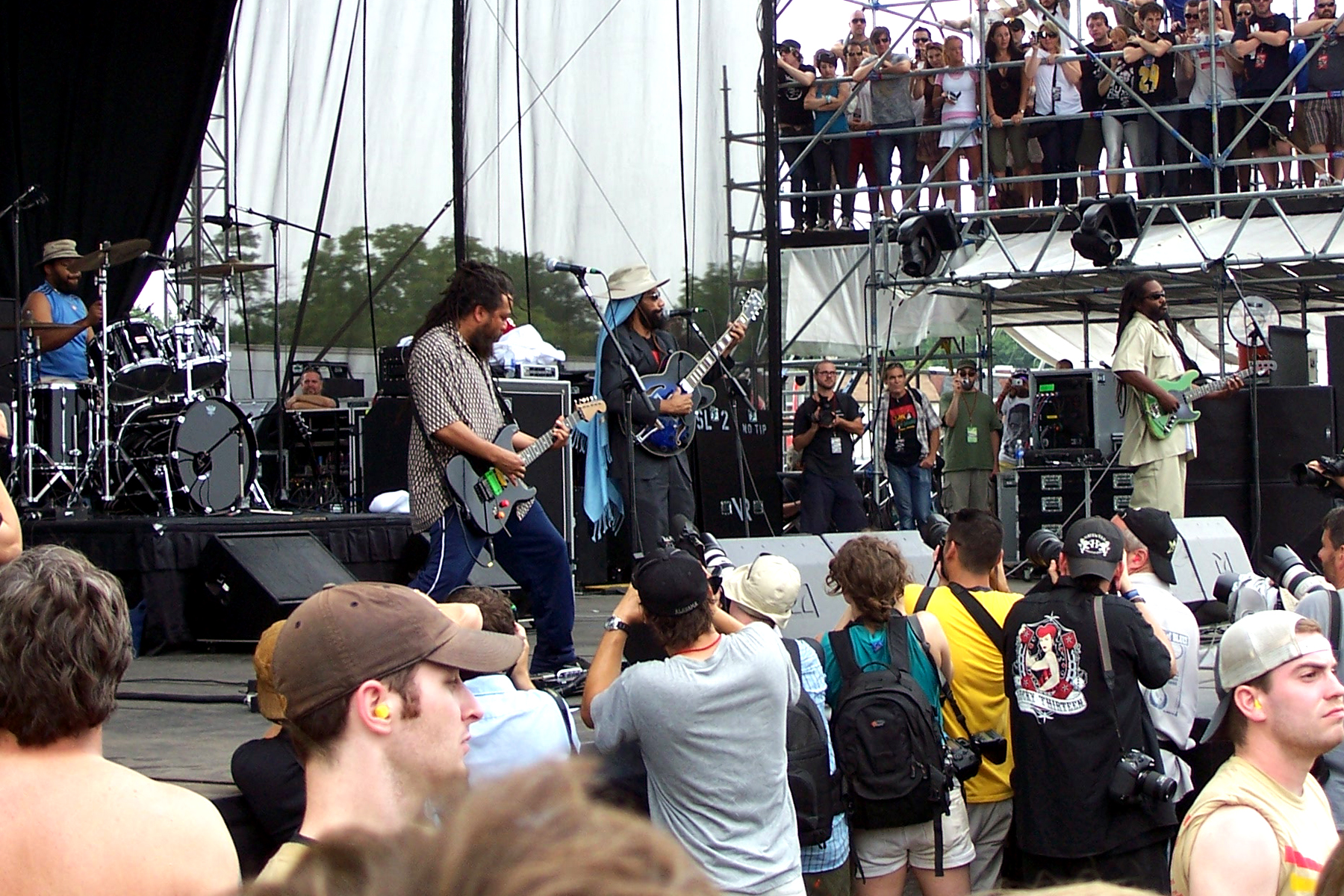 photo from flickr